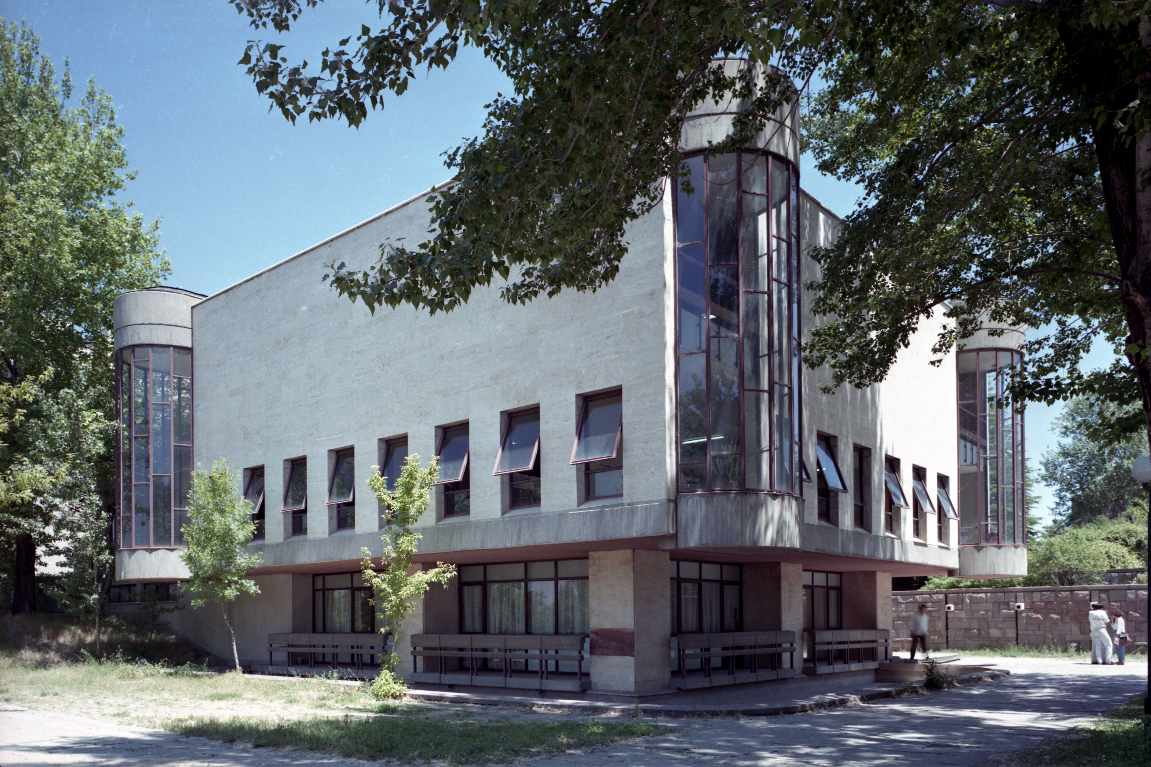 METU Library, old building, partial sider facade, 1961-1980 SALT Research, Altuğ-Behruz Çinici Archive ODTÜ Kütüphanesi, eski bina, bölümsel yan cephe, 1961-1980 SALT Araştırma, Altuğ-Behruz Çinici Arşivi